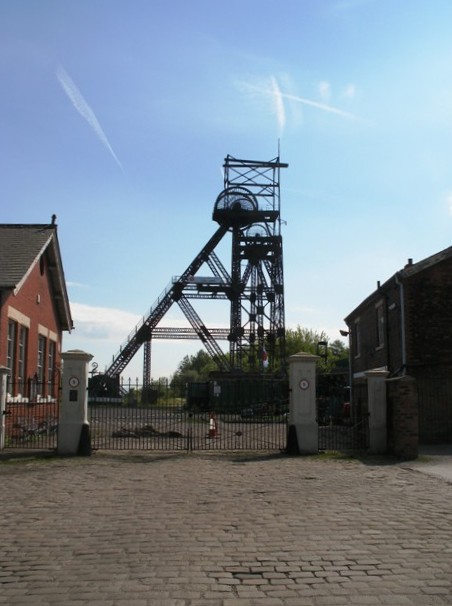 Astley Green Pit gates and headgear in Astley, Greater Manchester, England. Now preserved as a steam heritage and mining heritage centre.